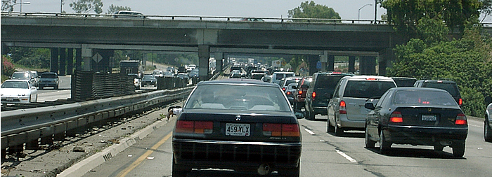 Rush hour on the Santa Ana Freeway, Interstate 5, where it meets Interstate 605,the San Gabriel River Freeway, in southeastern Los Angeles County. Photographed by user Coolcaesar on July 14, 2001 and uploaded by him.